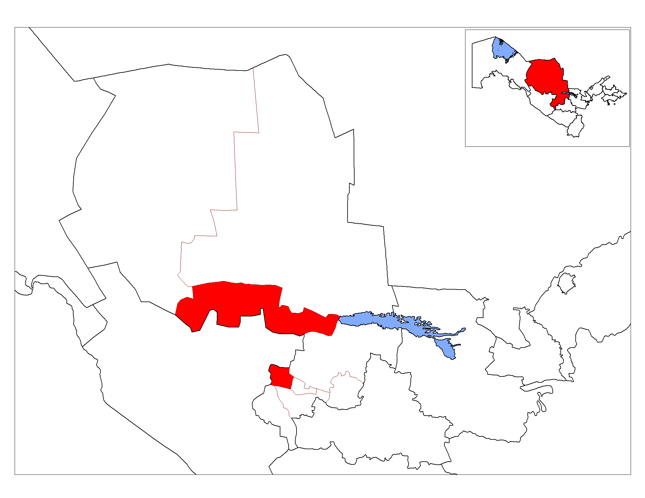 Location map of Konimex District in Navoiy Province, Uzbekistan